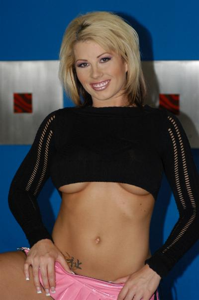 Brooke Haven on Set Of DCypher's Taboo 22 From Metro, June 06 2006